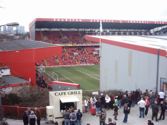 Photographed and uploaded by user:superbfc. Image captured on 2006-02-18 using TCM 3.2 MPx camera.